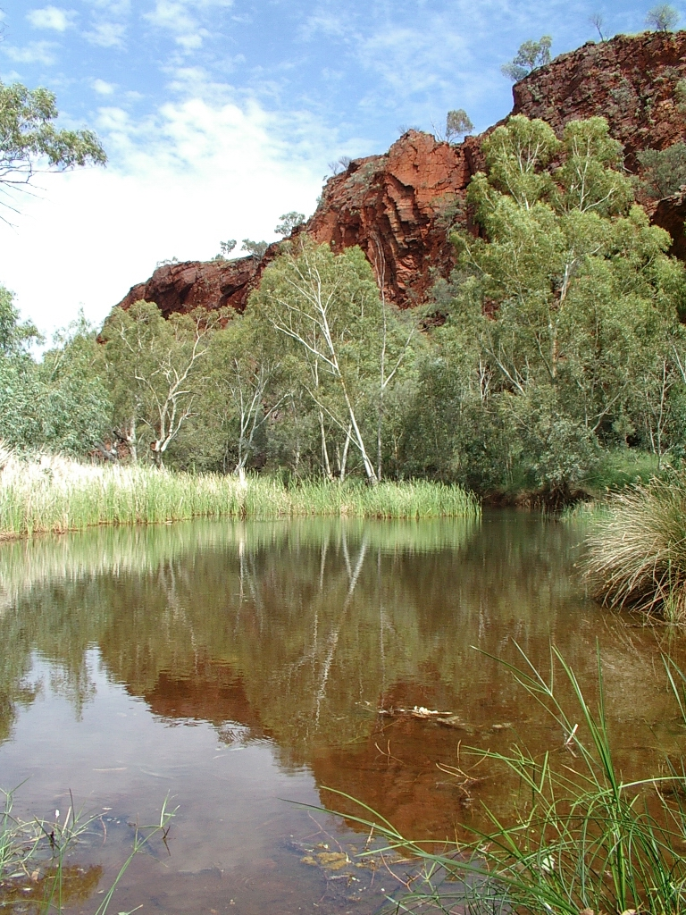 Paul Elek Kalgans Pool